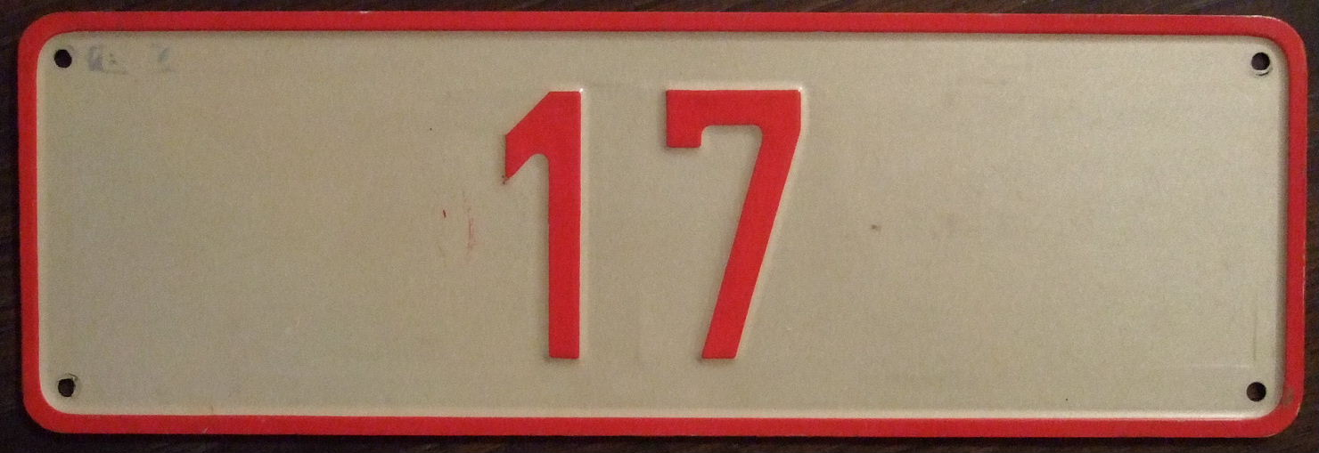 Low numbered plates are issued to use of the Royal Court.